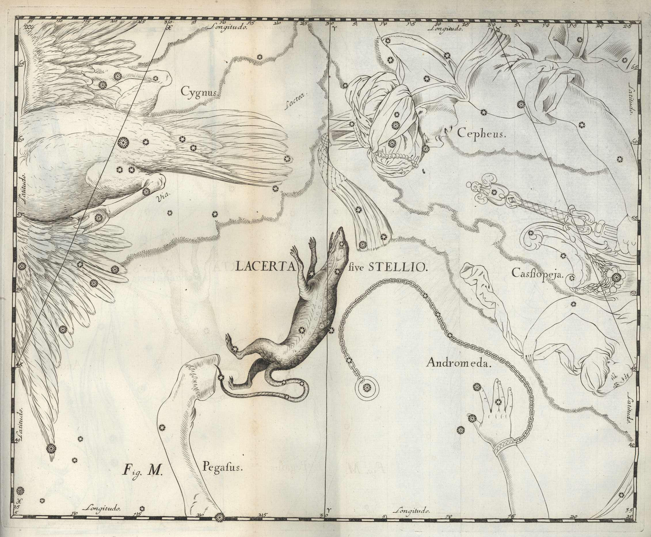 The Lacerta (constellation) constellation from Uranographia by Johannes Hevelius. The view is mirrored following the tradition of celestial globes, showing the celestial sphere in a view from "outside"